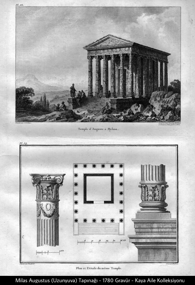 Milas Augustus (Uzunyuva) Tapınağı